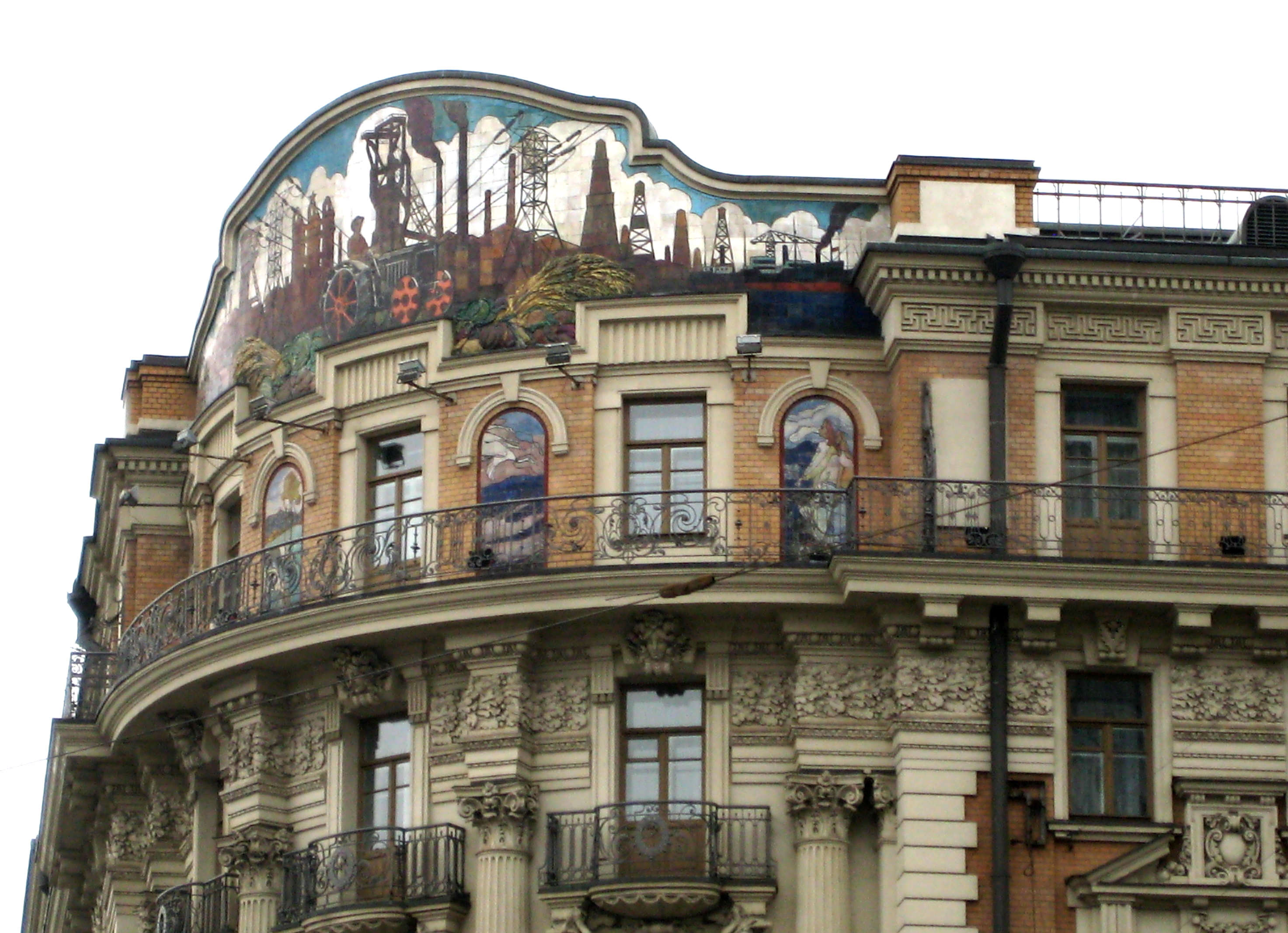 The Hotel National in Moscow